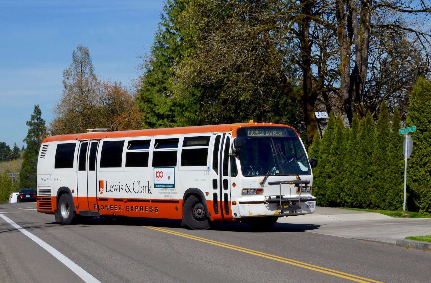 Pioneer Express bus 784 turning into the Lewis & Clark College campus (onto Huddleson Lane) from Palatine Hill Road, in Portland, Oregon. Bus 784 is a 1994 TMC RTS-type bus (specifically, model T80206) and was originally Fairfax Connector bus 7842 (Fairfax, Virginia). It was acquired secondhand by ECOShuttle (formally the Environmental Commuter Options Company), which operates the Pioneer Express shuttle service under contract with the college.